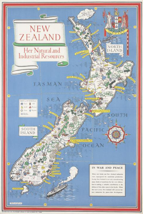 New Zealand - Her Natural and Industrial Resources whole: the main image occupies the majority, with two smaller images positioned in the upper right and centre right. The title is partially integrated and placed in the upper left, in black, held within a white and green banner. The text is partially integrated and positioned across the majority, in black, partially held within white insets and yellow insets. All held within a black, white and red border. image: a map of New Zealand, illustrating the locations of various industrial and natural resources, such as farmland, mines and forests. The smaller images are of the New Zealand coat of arms, and a compass. text: NEW ZEALAND Her Natural and Industrial Resources ONWARD [map has various text] KEY TO SYMBOLS Coal Oil Gold Platinum Iron Tungsten Mercury Extraction [map has various text] IN WAR AND PEACE When war broke out New Zealand industries were unprepared for munitions production. To-day New Zealand is not only manufacturing many kinds of munitions for her own defence but is making a valuable contribution to the defence of the other areas in the Pacific. When the war is over, New Zealand will convert her new industries for peace-time development. MacDonald Gill 1943 PRINTED FOR H.M. STATIONERY OFFICE BY FOSH and CROSS LTD. 51-3583